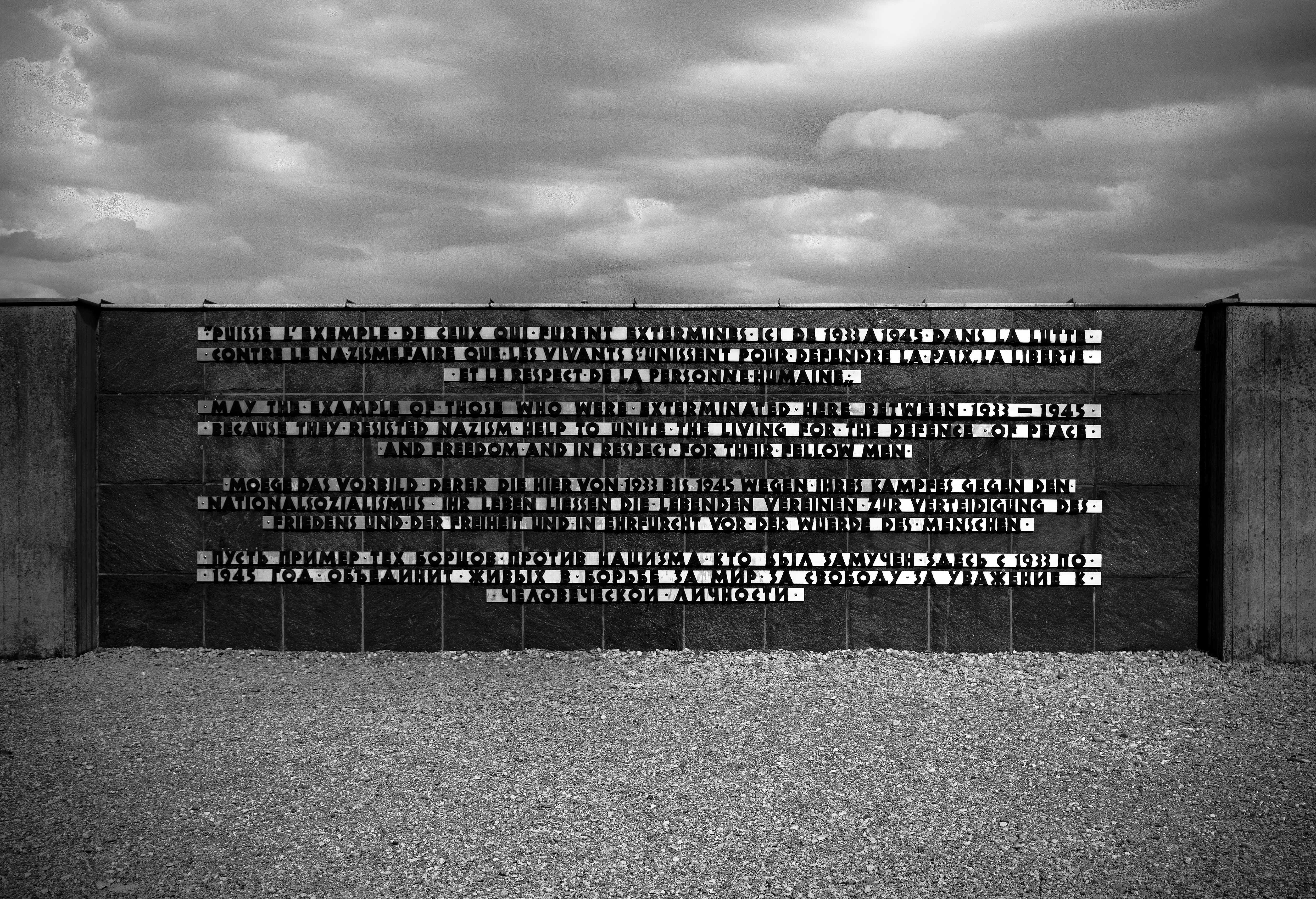 The commemoration writings, in four languages, at the Dachau concentration camp